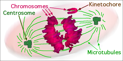 Diagram of the anaphase step in mitosis. Most of the chromosomes (red) in this diagram were taken from an actual microscopy image of a mitotic cell (shown below). Source: I created this diagram with ClarisDraw and PhotoShop.